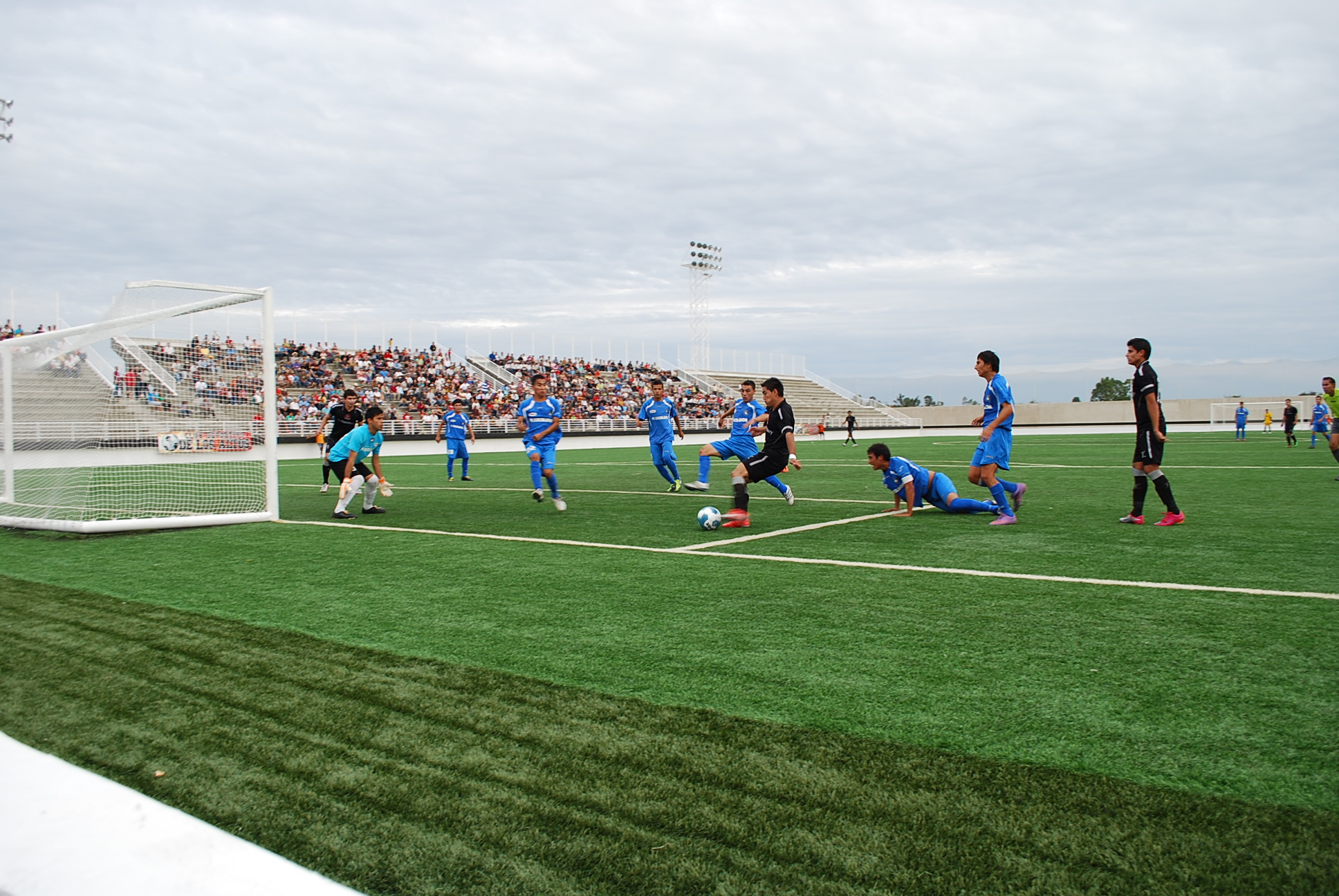 This picture was taked when Club deportivo de los Altos play vs FC Exelcior.